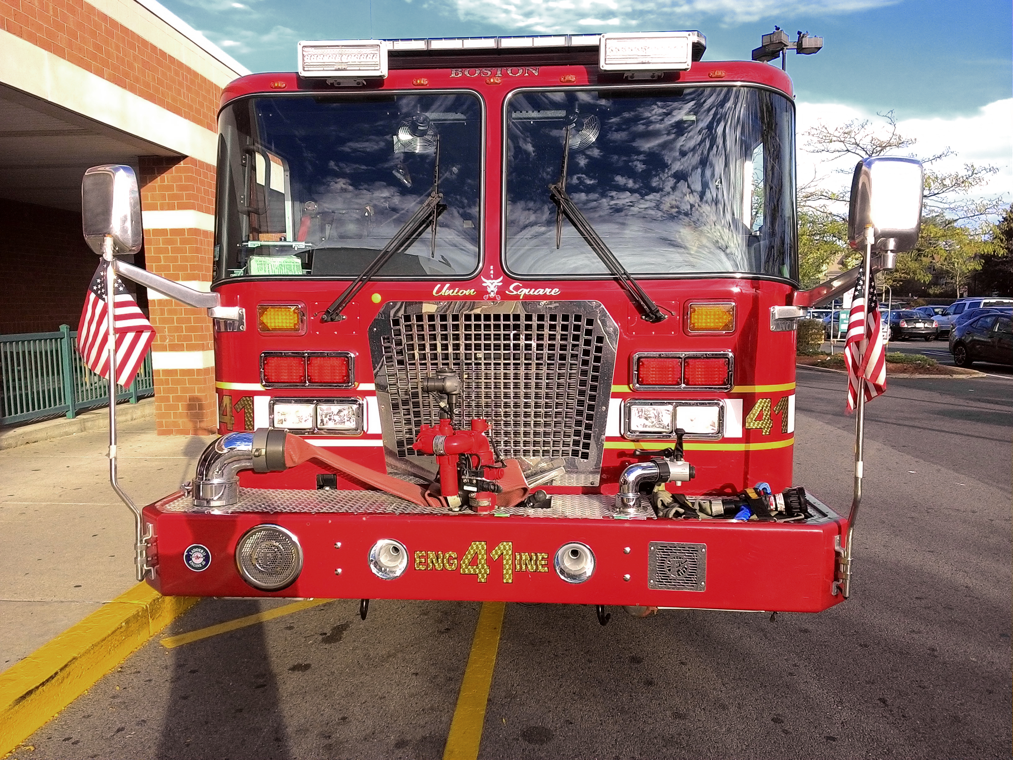 Boston Fire Department Engine 41 in the parking lot next to the Super Stop & Shop, Everett Street in the Brighton neighborhood of Boston, Massachusetts